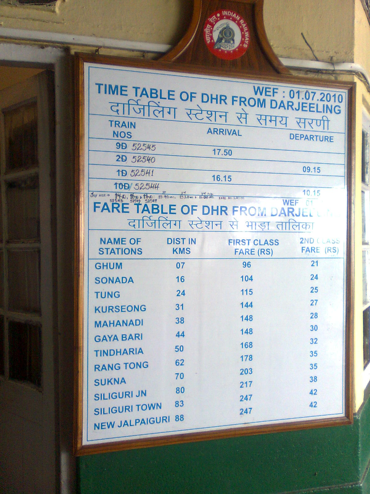 Stations in DHR